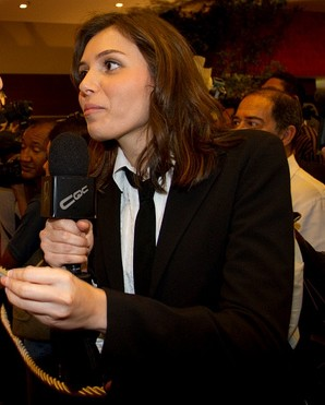 Bruno Senna and Mônica Iozzi